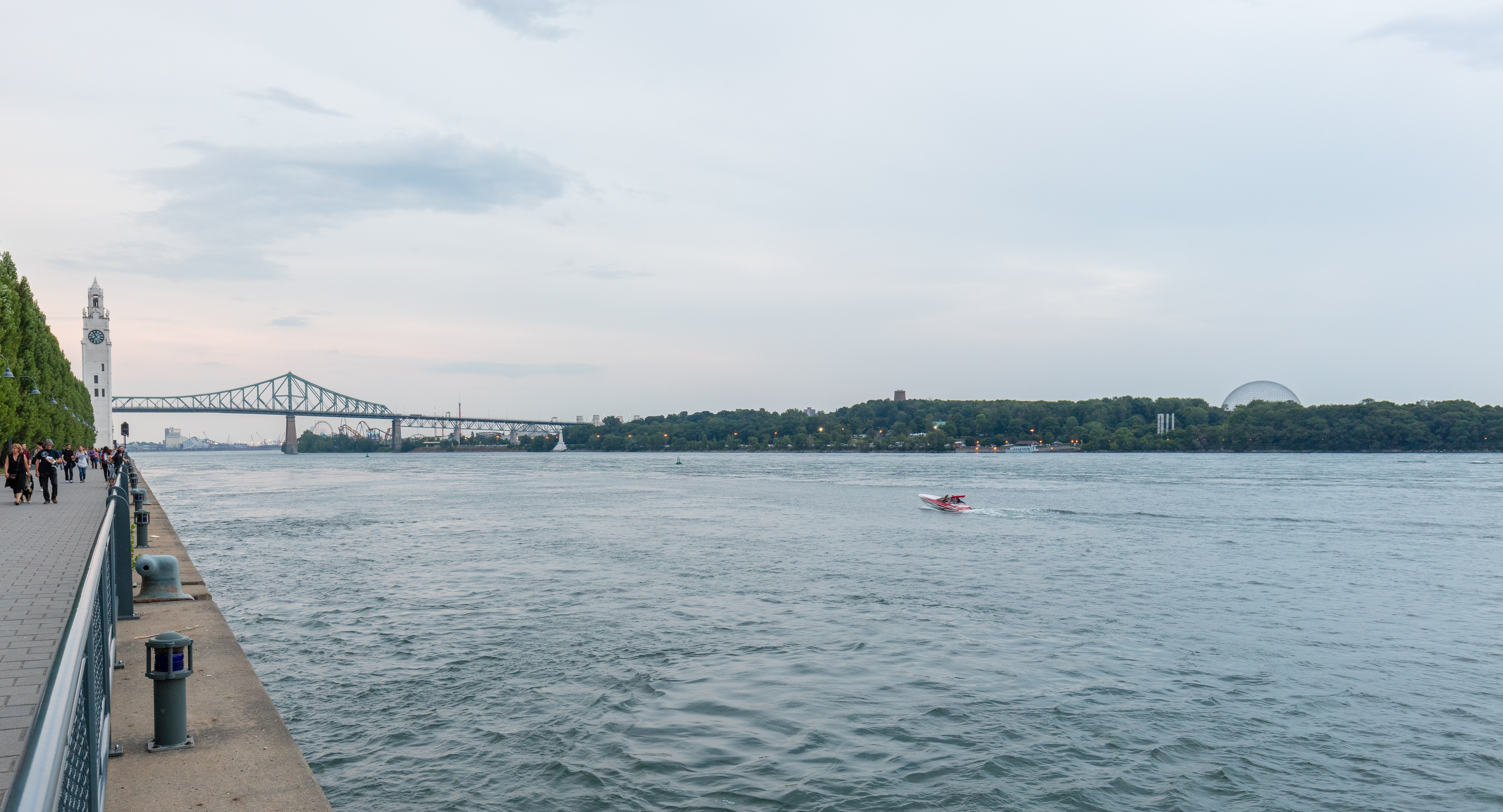 Saint Lawrence River, Montreal, Canada